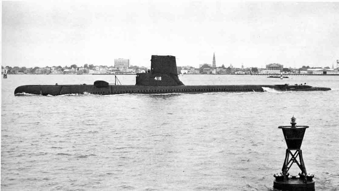 USS Thornback (SS-418) in the Cooper River with Charleston in the background. The Steeple is ST. Philip's church and the large building to the right is the United States Custom House. The year is 1956. The Thornback was just overhauled with a sonar dome added just forward of her sail.